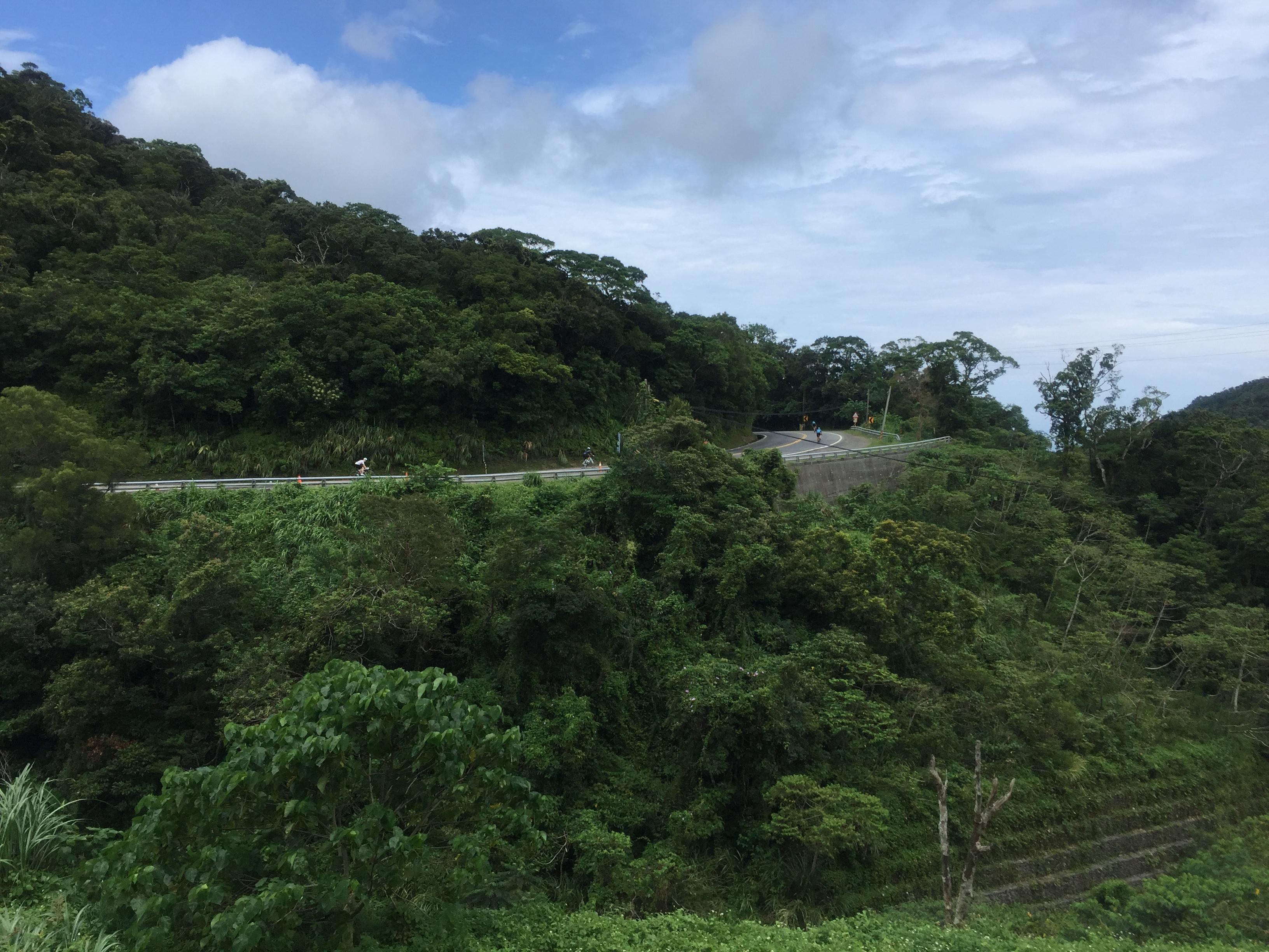 View from Shouqia.